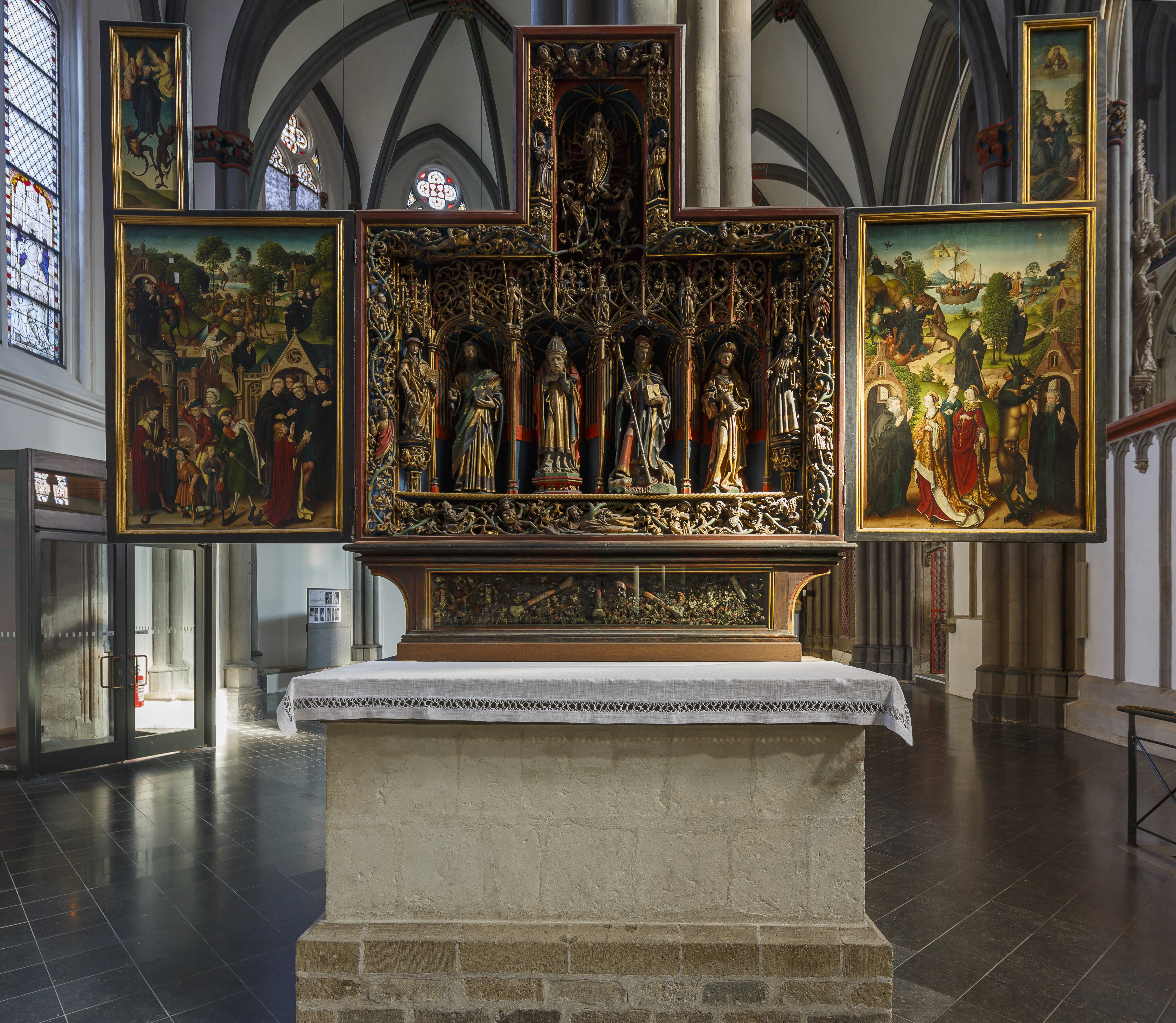 Xanten, Germany: Antonius Altar